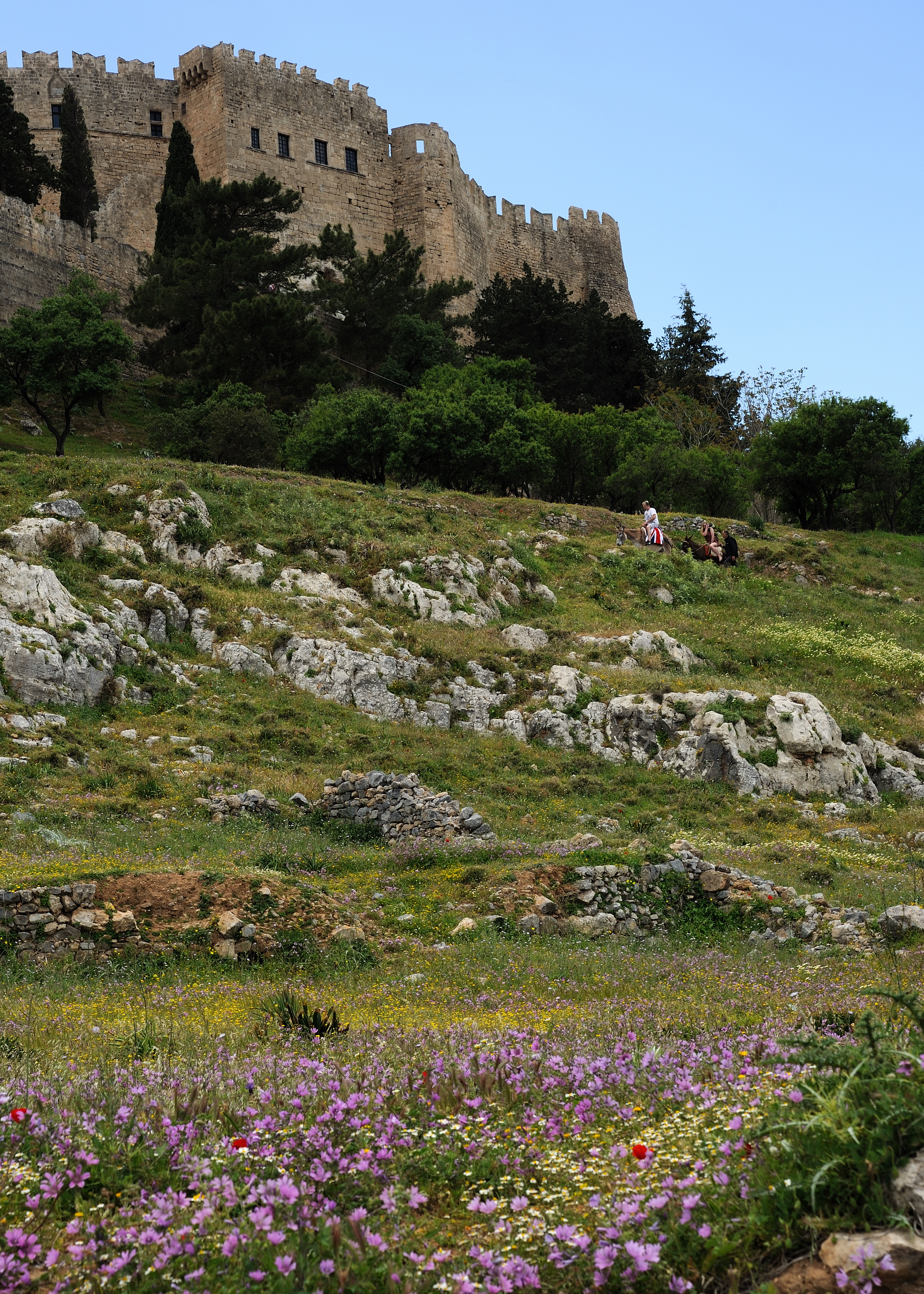 A view from below of the Castle of the Knights of St John, Lindos, Greece. The castle was built some time before 1317 on the foundations of older Byzantine fortifications.